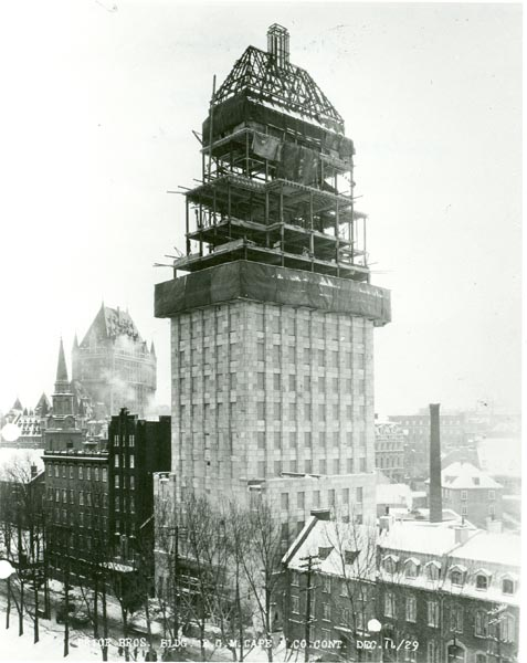 Price Bros. Bldg.